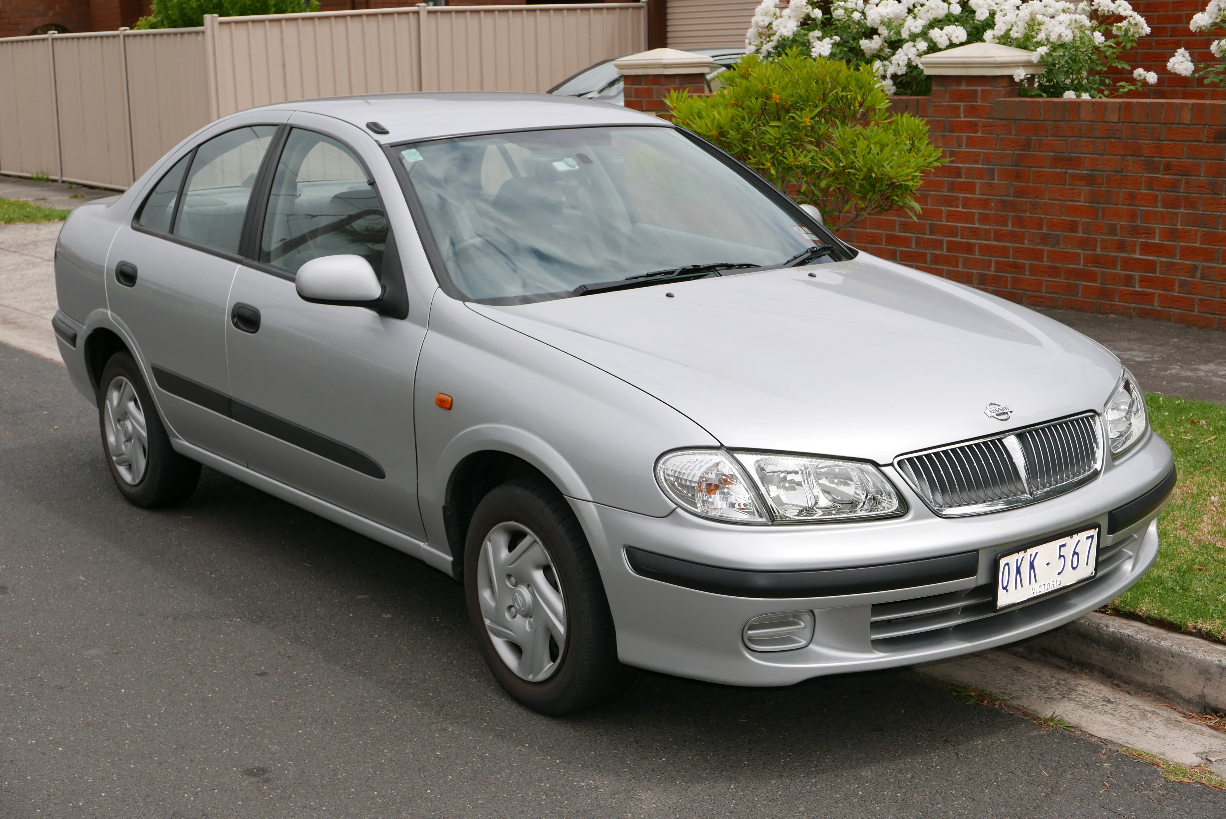 2000 Nissan Pulsar (N16) ST sedan. Photographed in Pascoe Vale, Victoria, Australia. Vehicle registration enquiry resultsJurisdictionVictoriaRegistrationQKK567Chassis codeJN1CBAN16A0004847Engine codeQG18316249Compliance date2000-09Year of manufacture2000